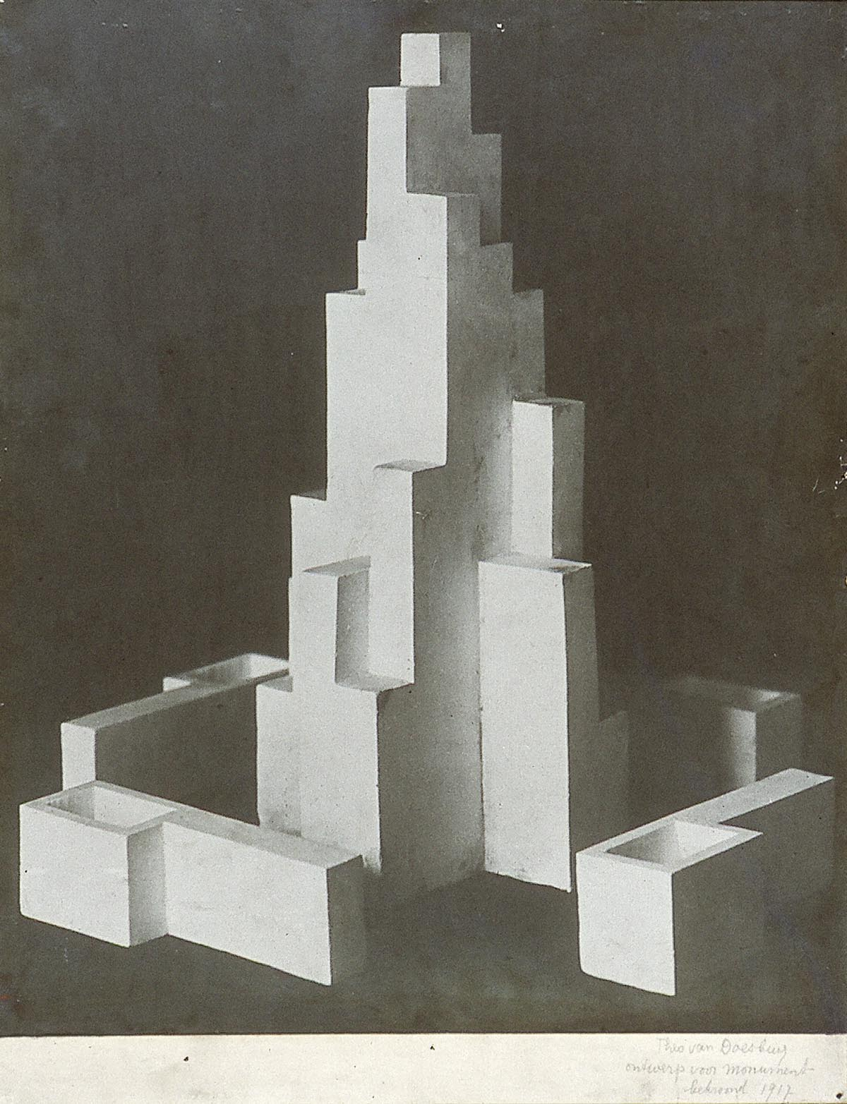 Design for a monument in the Frisian capital Leeuwarden. Unexecuted. The model is lost. A replica of the model is kept in the Van Abbemuseum in Eindhoven.